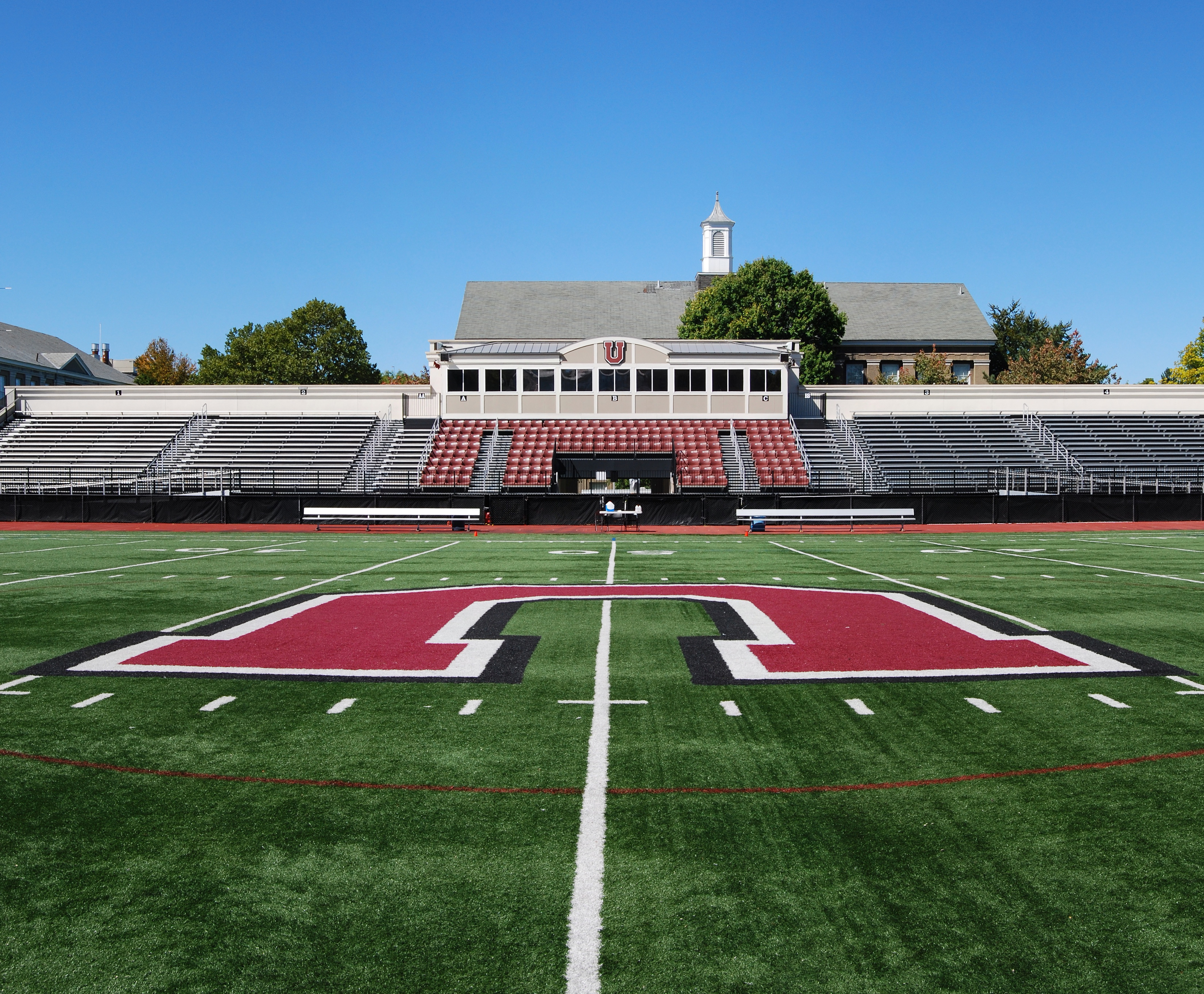 Frank Bailey Athletic Field and Track on the campus of Union College in Schenectady, New York, United States